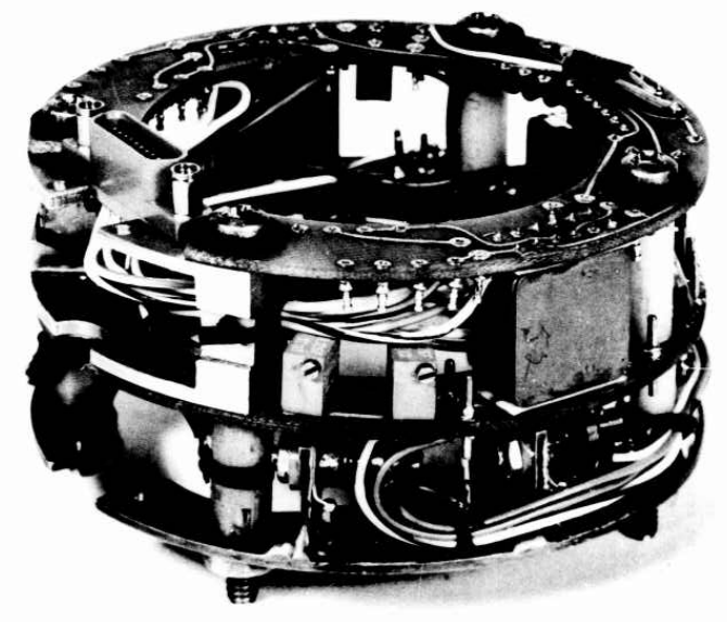 Stinger Alternate Flight Control Electronics.